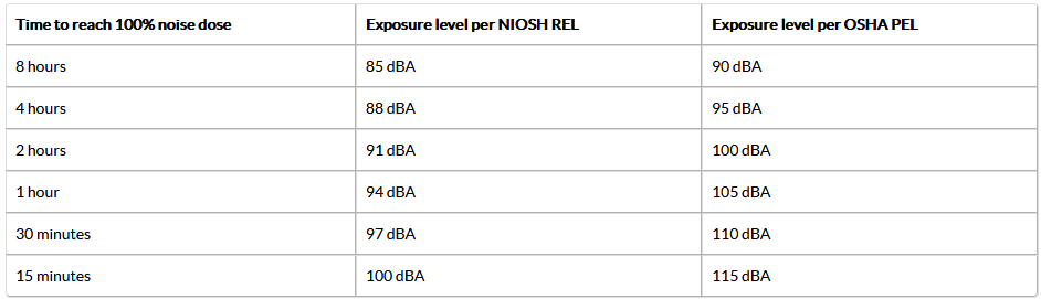 Relationship between noise exposure levels and duration of allowable exposure at that level for NIOSH and OSHA